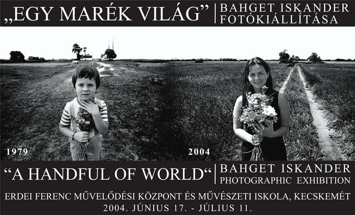 Bahget Iskander „A Handful of World“ photographic exibithion